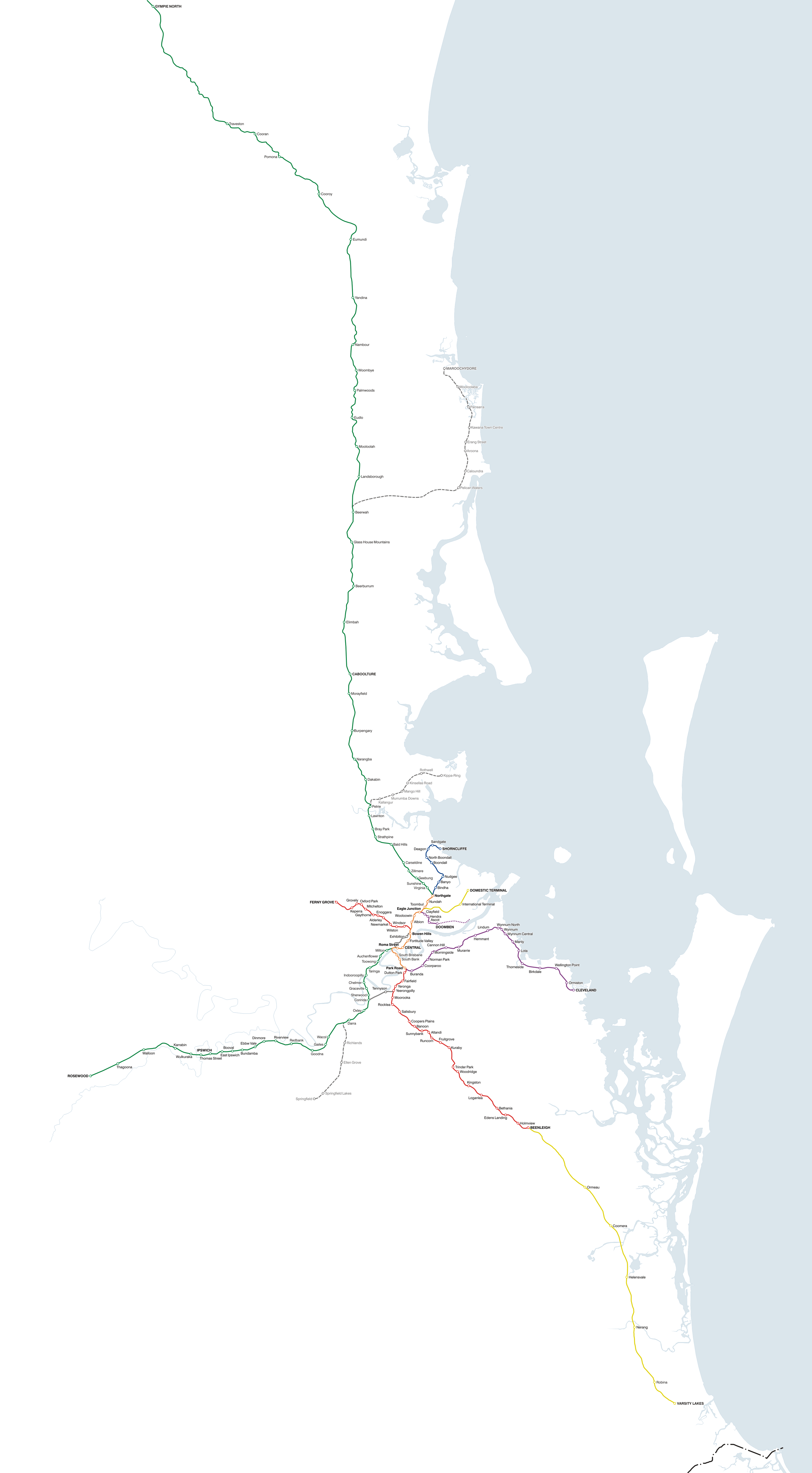 Accurate, to-scale map of the QR Citytrain network, covering South East Queensland, Australia Suburban lines – north of Brisbane Airport railway line, Brisbane Caboolture railway line Doomben railway line Ferny Grove railway line Shorncliffe railway line Suburban lines – south and west of Brisbane Beenleigh railway line Corinda via South Brisbane railway line Cleveland railway line Ipswich railway line Suburban lines – inner Brisbane Exhibition railway line Denotes the 'inner' of the network where more than one line shares the route Interurban lines – north of Brisbane Nambour and Gympie North (Sunshine Coast) railway line Interurban lines – south and west of Brisbane Gold Coast railway line Rosewood railway line Proposed or under construction Denotes lines proposed or under construction